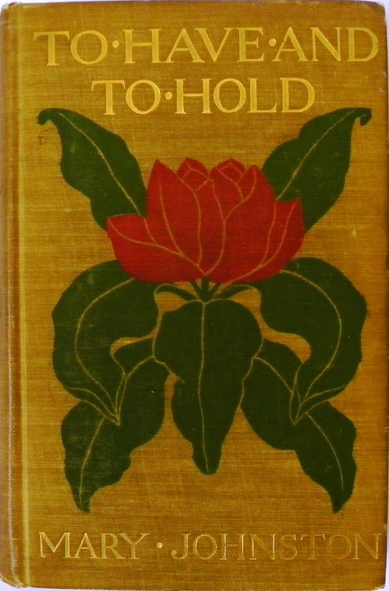 Front cover of the 1st edition of To Have and to Hold